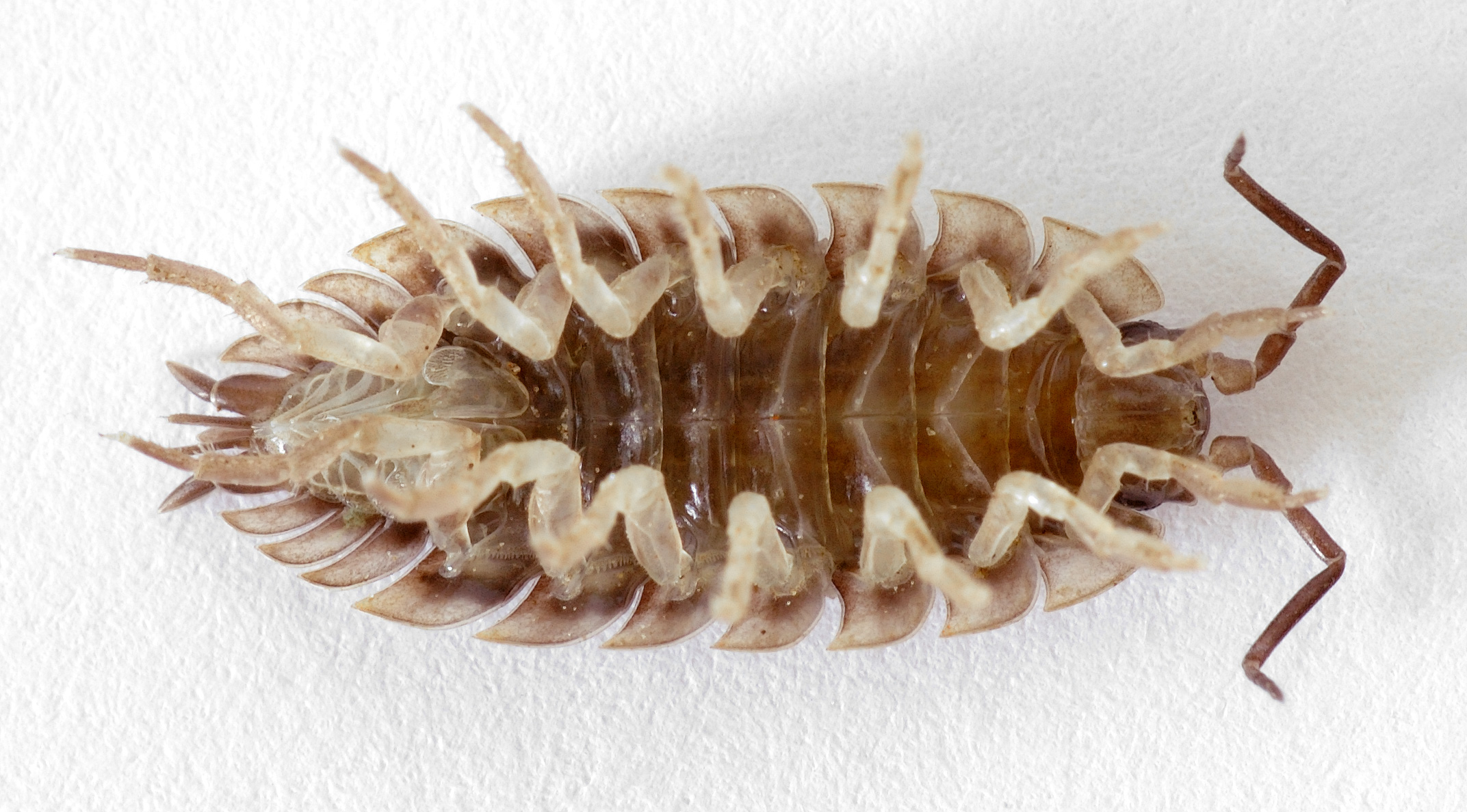 This image shows a 0.4 inch (10 mm) large male Common woodlouse (Oniscus asellus).